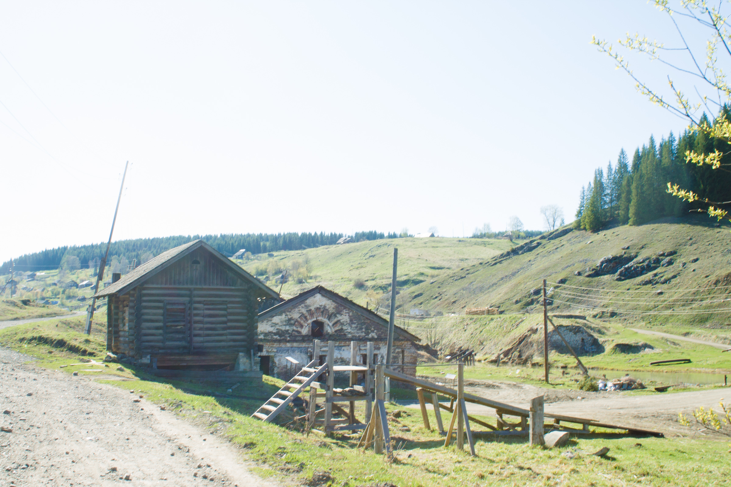 Караульная изба Кыновского завода 1850-х годов. В избе располагались сторожа, а напротив было заводоуправление